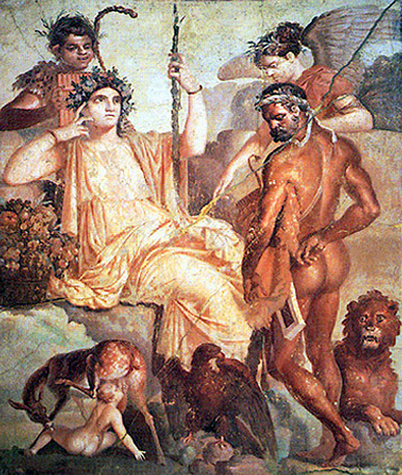 Hercules and Telephos. Roman fresco in the Augusteum (so called Basilica) at Herculaneum. Museo Archeologico Nazionale (Naples) Nr. 9008